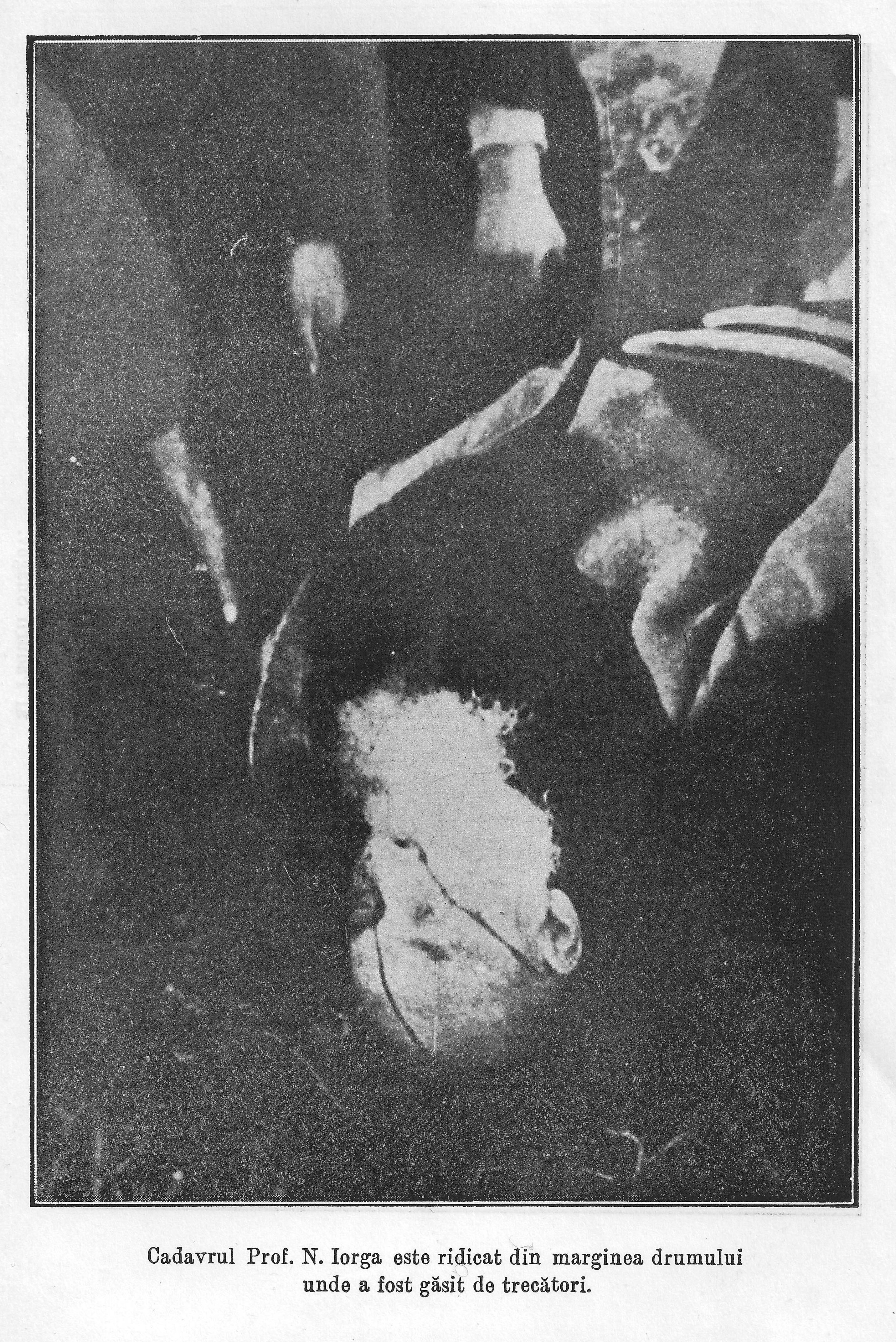 The dead body of Nicolae Iorga is taken on the morning of November 28, 1940